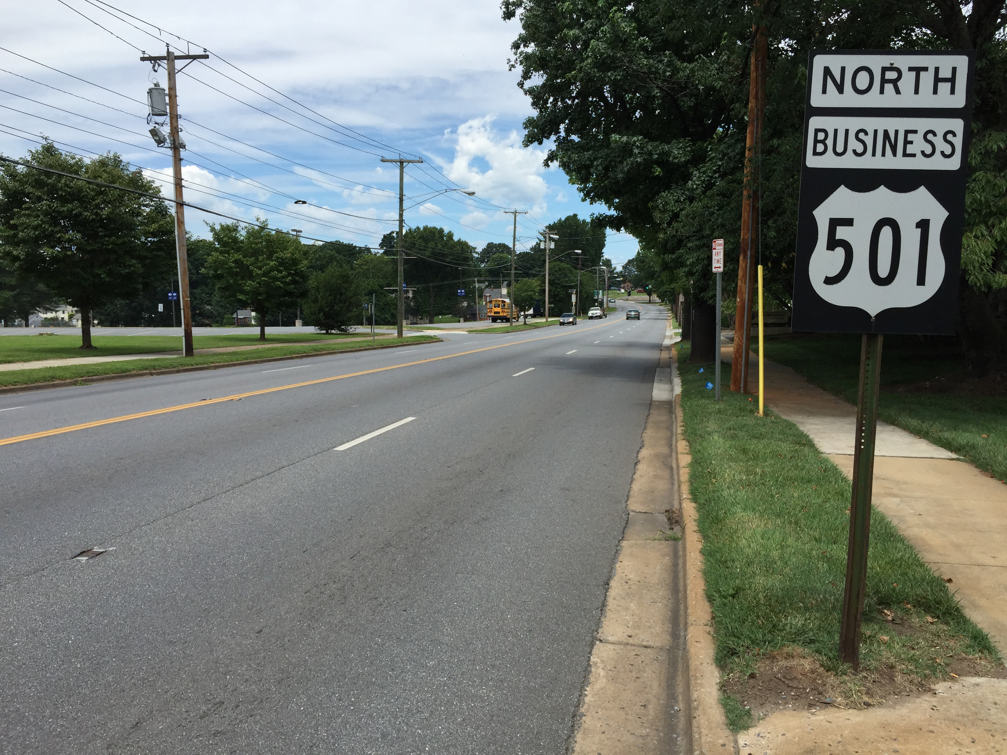 View north along U.S. Route 501 Business (Langhorne Road) at Third Street in Lynchburg, Virginia